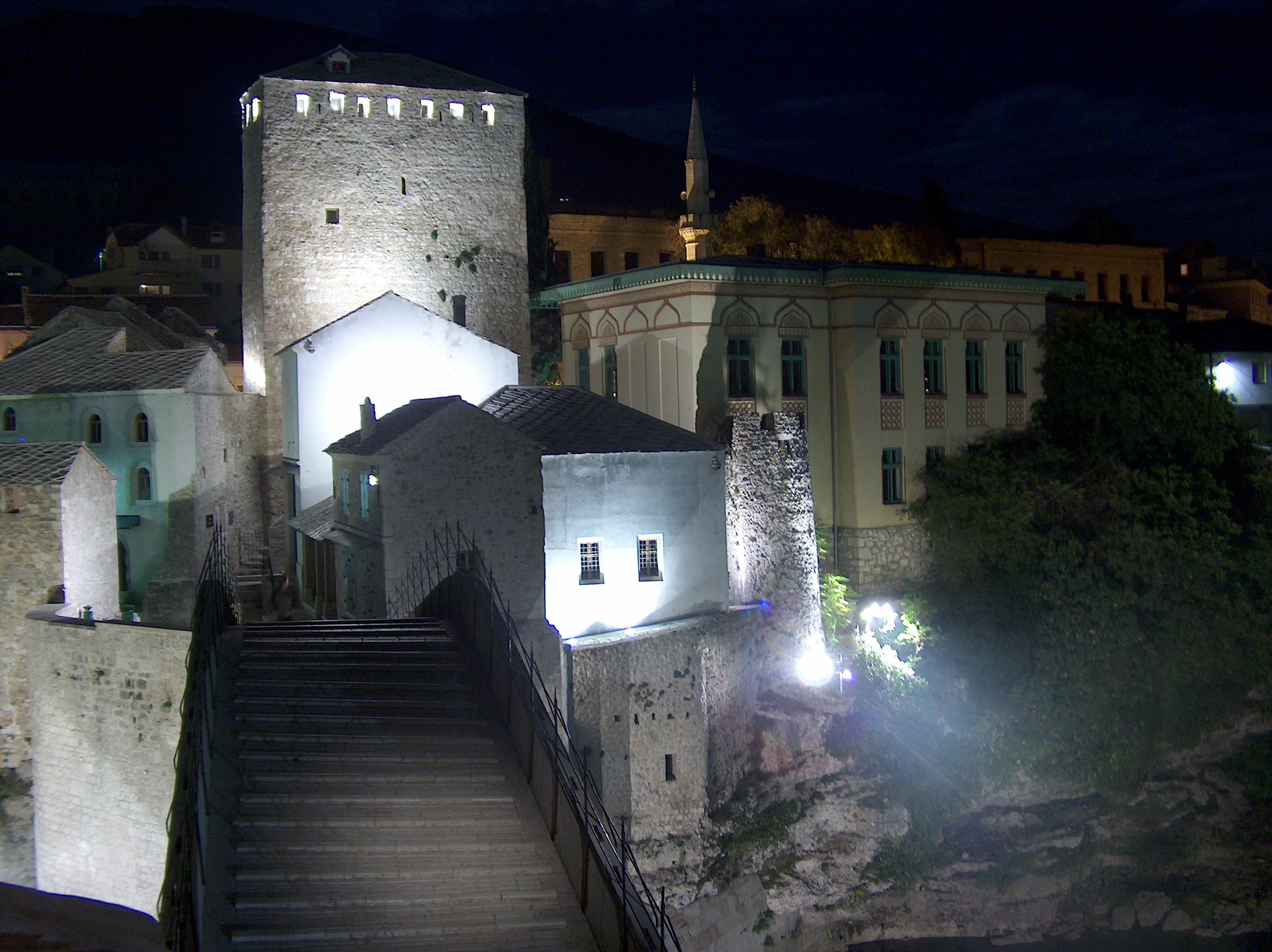 The bridge of Mostar